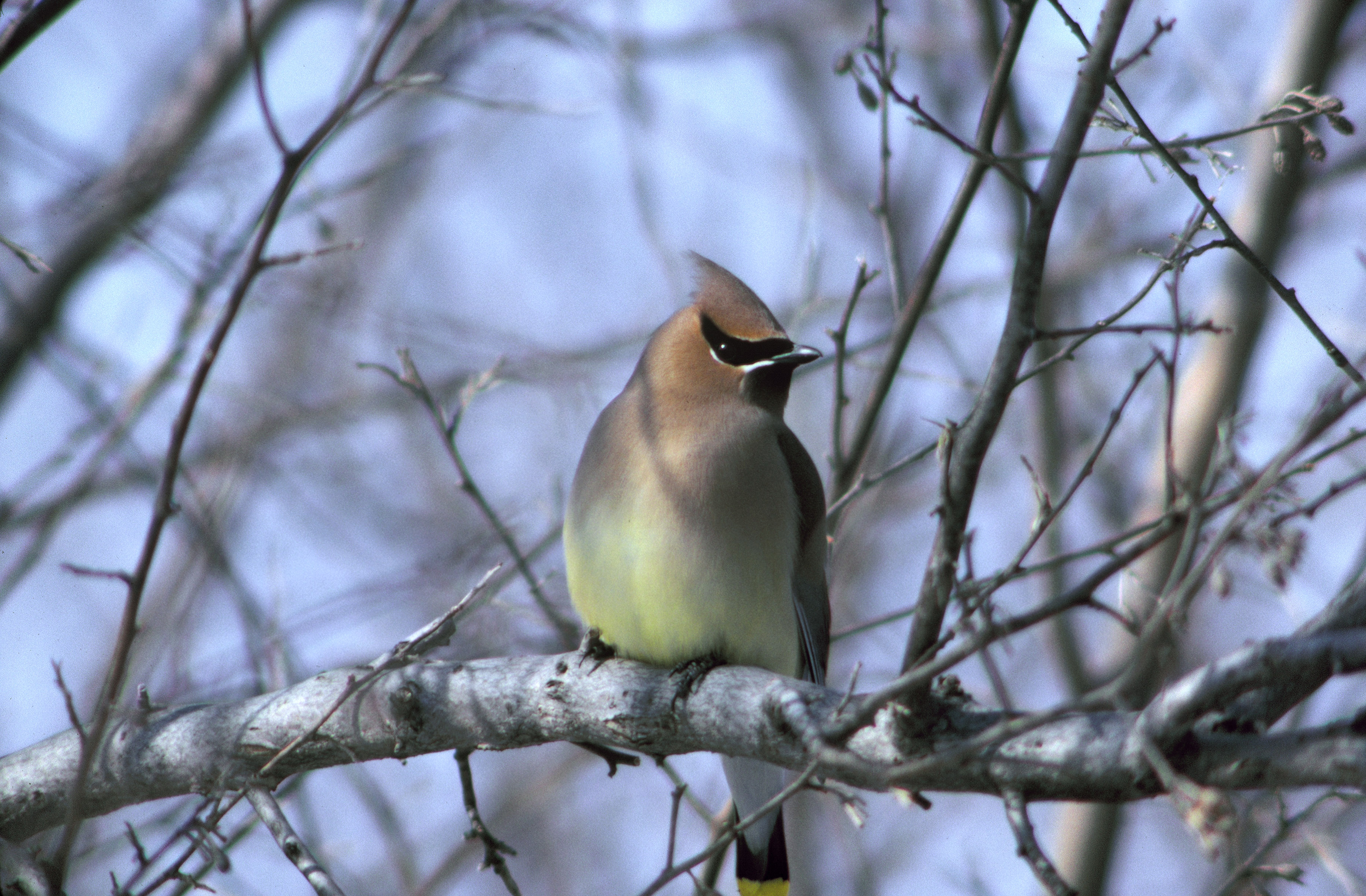 Photo of the week - 12/8/09 A cedar waxwing perched on a branch in the winter. Credit: David Menke/USFWS